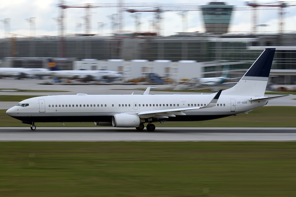 Munich (EDDM/MUC) Airport